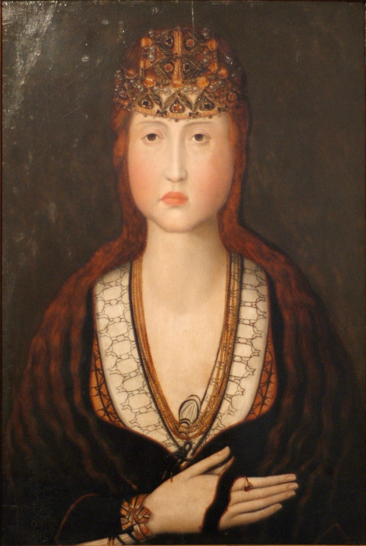 Saint Joana, Princess of Portugal. Unknown Portuguese painter, second half of 15th century